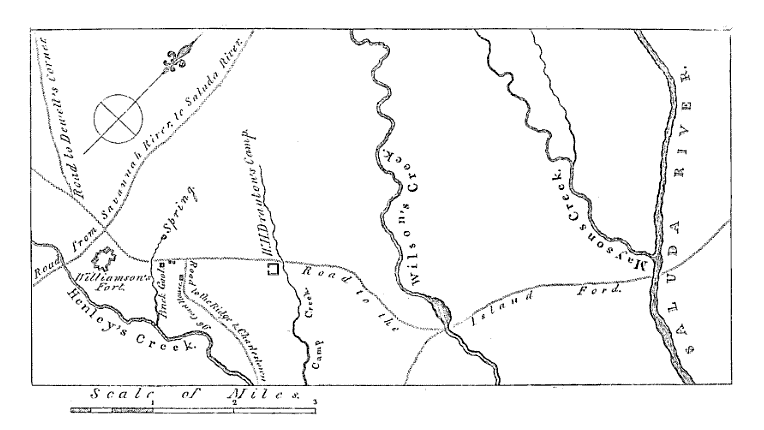 Map showing the area around Ninety Six, South Carolina early in the American Revolutionary War. The "fort" of Major Andrew Williamson, the site of the Siege of Savage's Old Fields is visible.